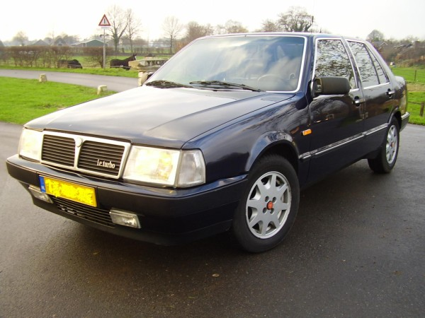 Lancia Thema i.e. Turbo 1988